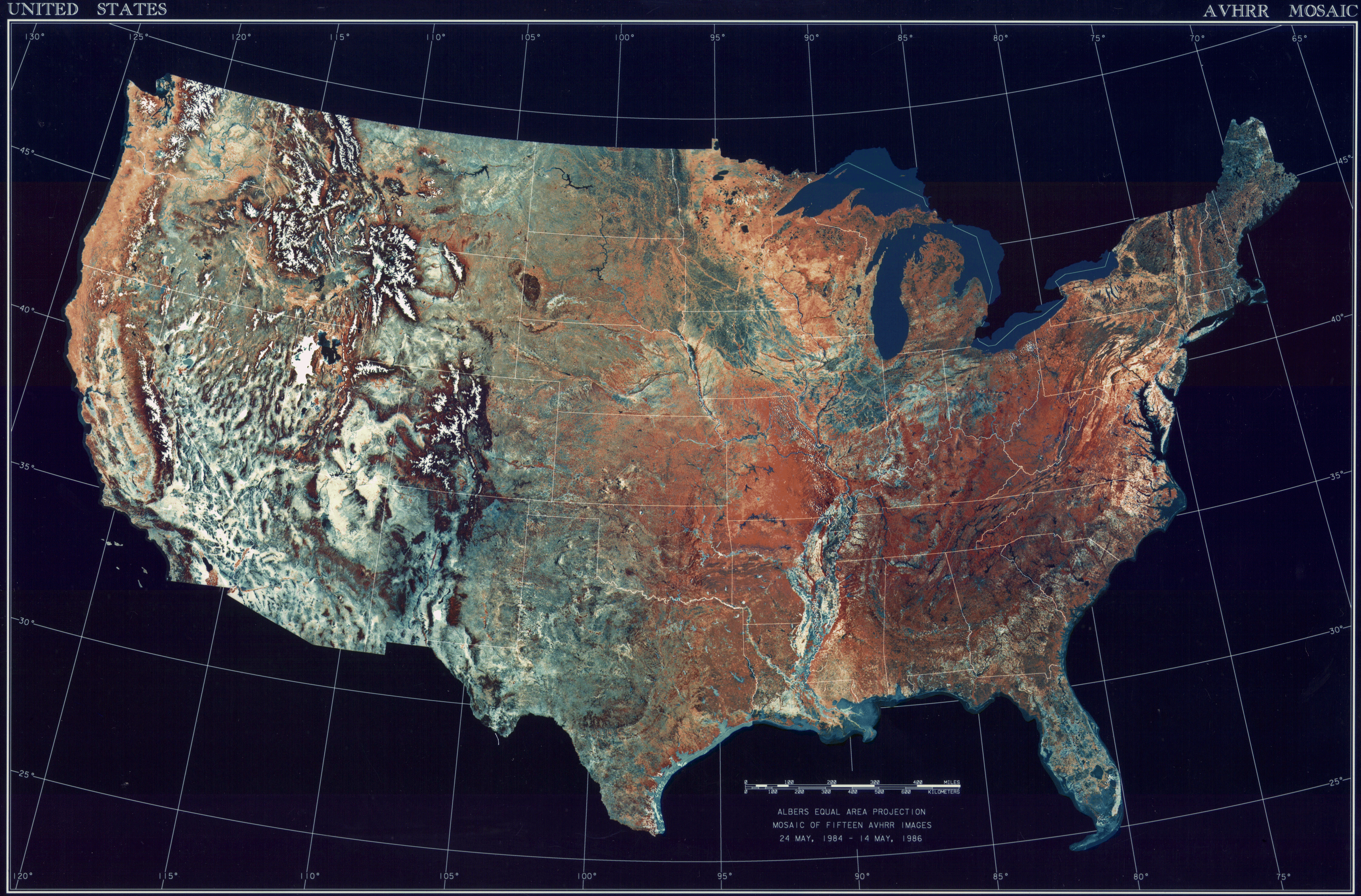 AVHRR satellite image with topography of the 48 contiguous states of the United States.